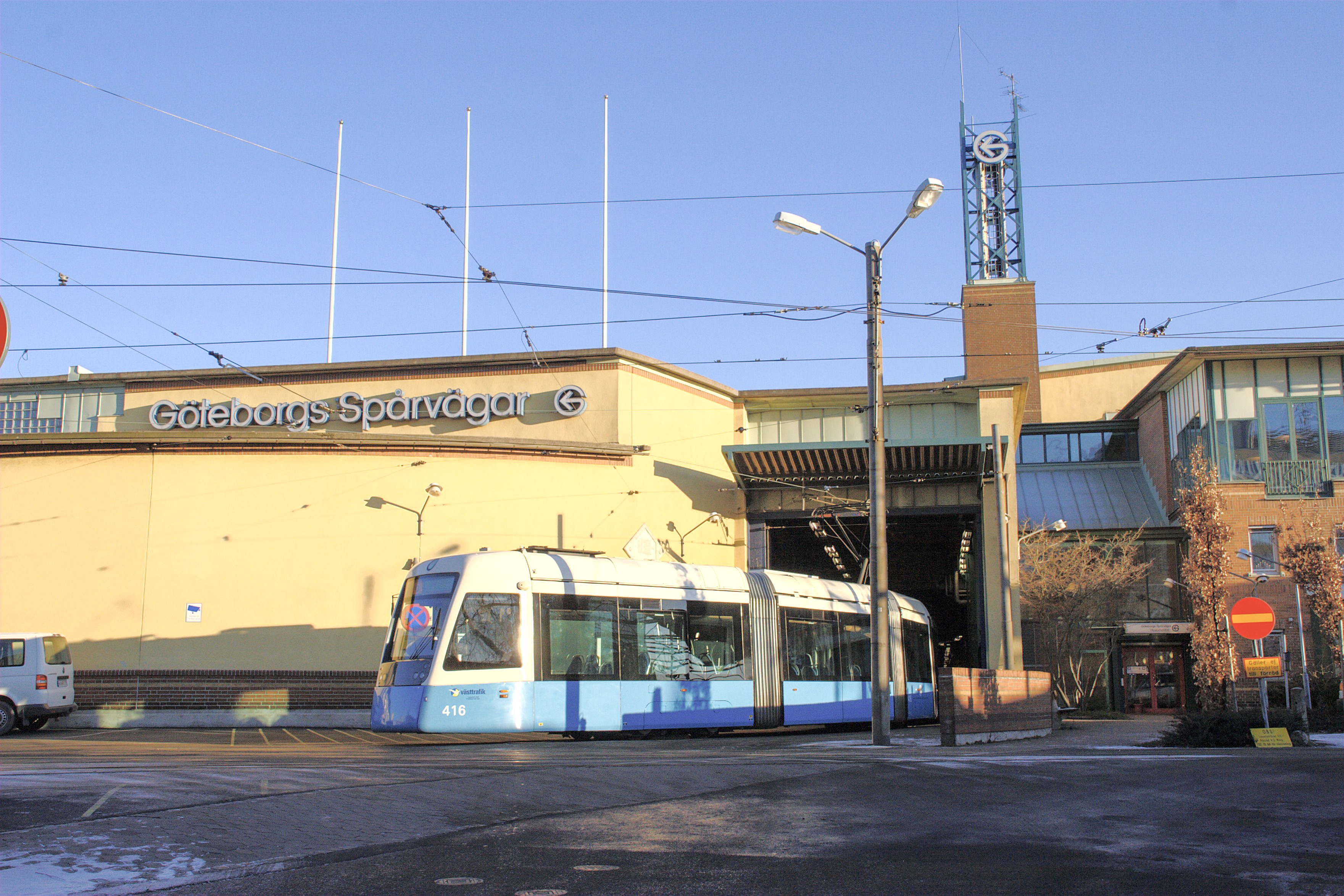 Vagnhallen Gårda, Gothenburg, Sweden.